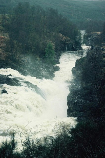 Inverlair Falls Falls well worth seeing on a rainy day when in spate as here. Difficult (and dangerous) to view involving walking along railway line and hanging over an escarpment.